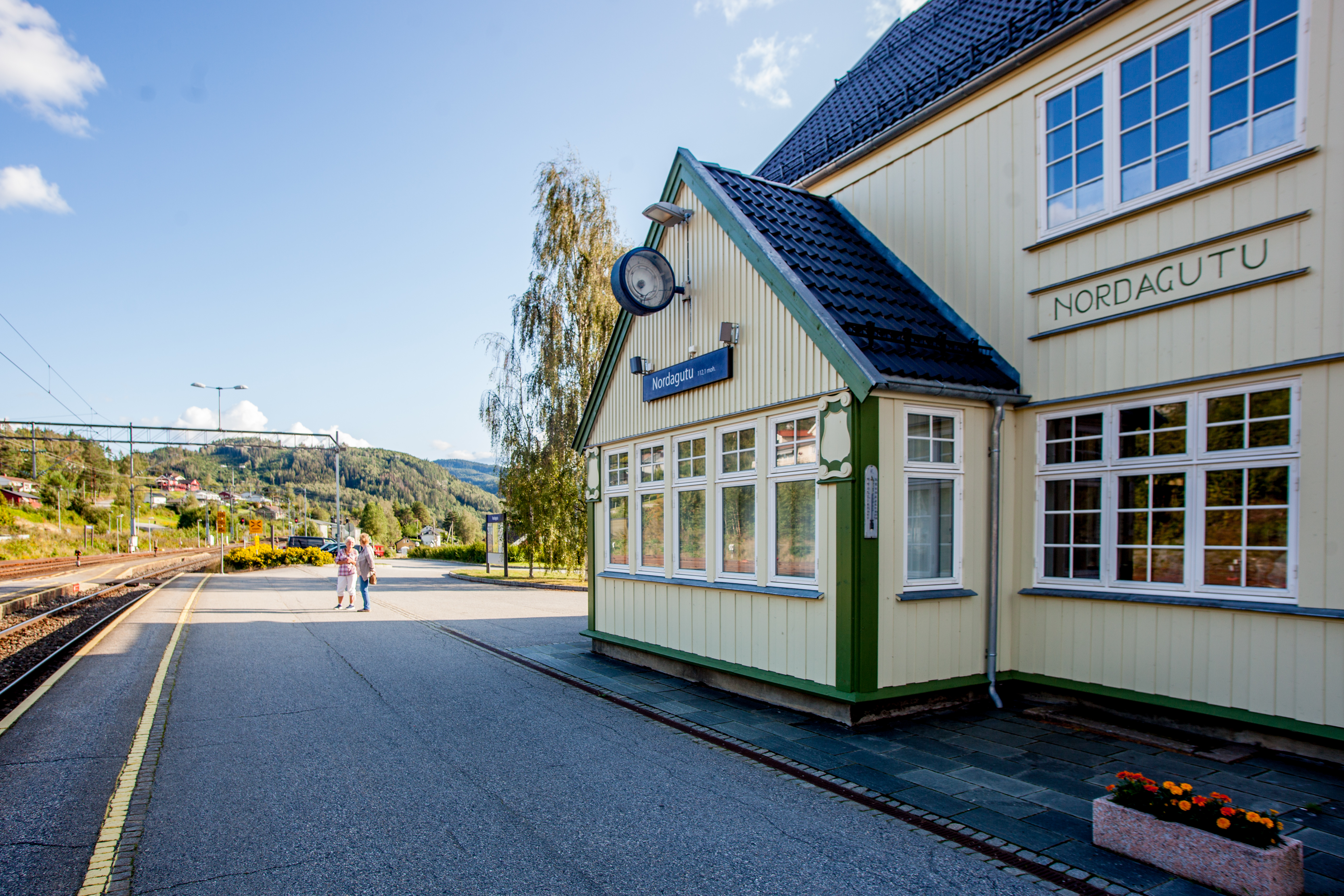 Train station in village Nordagutu, municipality Sauherad, Telemark County, Norway